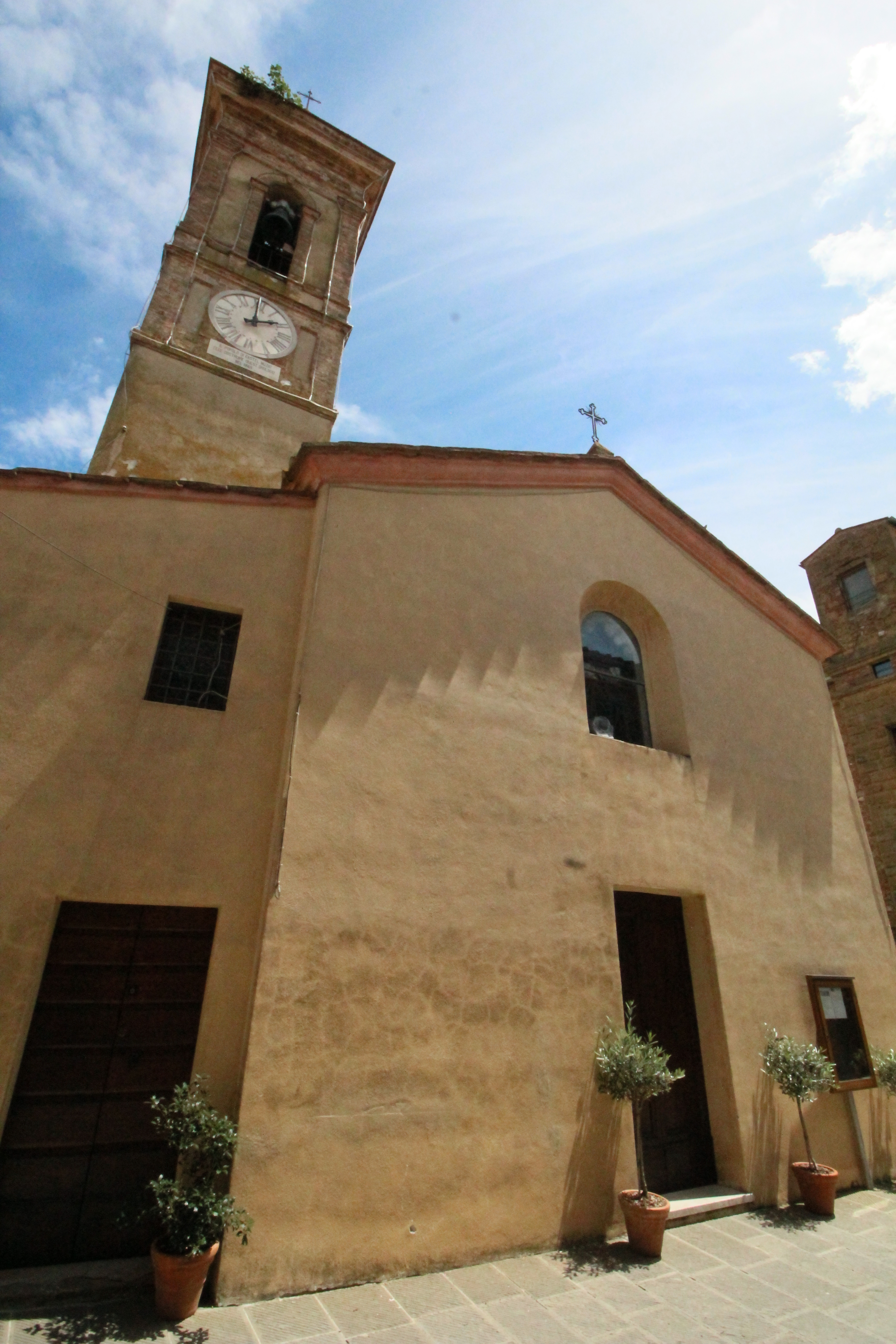 Church Santa Maria Assnte in Castelmuzio, hamlet of Treqanda, Province of Siena, Tuscany, Italy